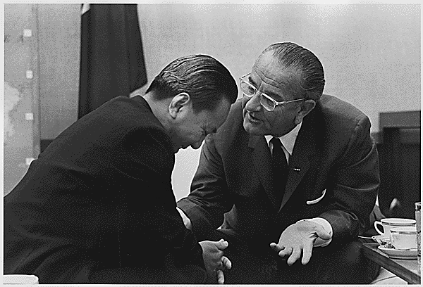 President Nguyen Van Thieu (South Vietnam) and President Lyndon B. Johnson